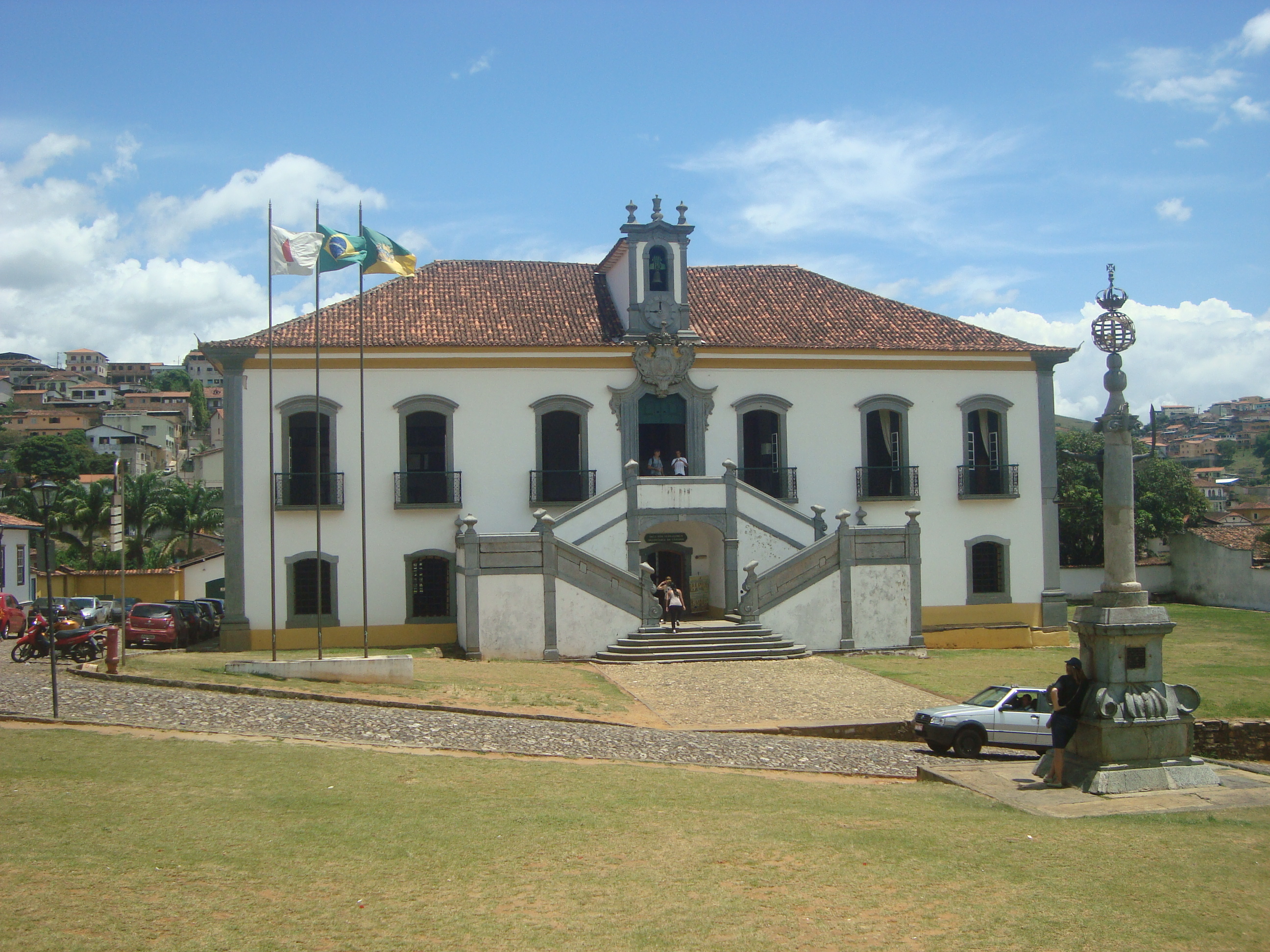 Mariana's old jail